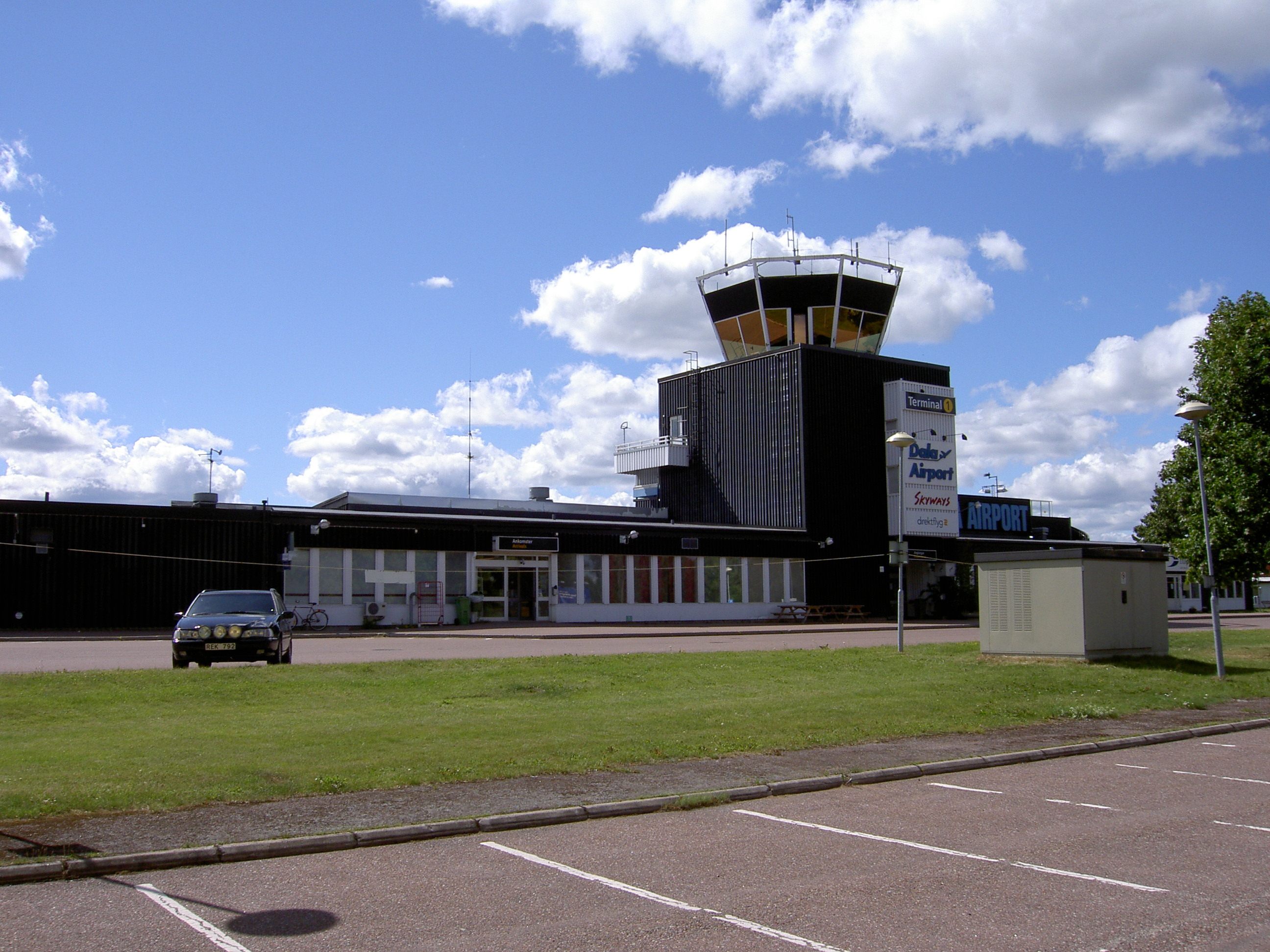 Terminal 1 of Dala Airport and the airport's car park/parking lot.